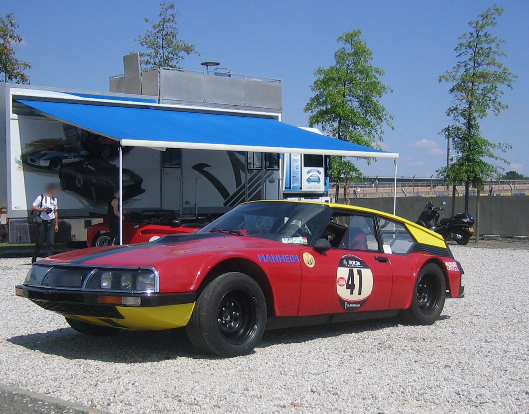 1972 Citroën SM "Breadvan".Event: 2011 LM Story, Circuit Bugatti, Le Mans